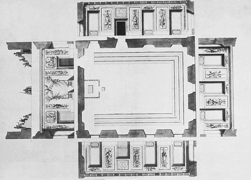 The New Chamber of Deputies (Envoy Chamber) at the Royal Castle in Warsaw.